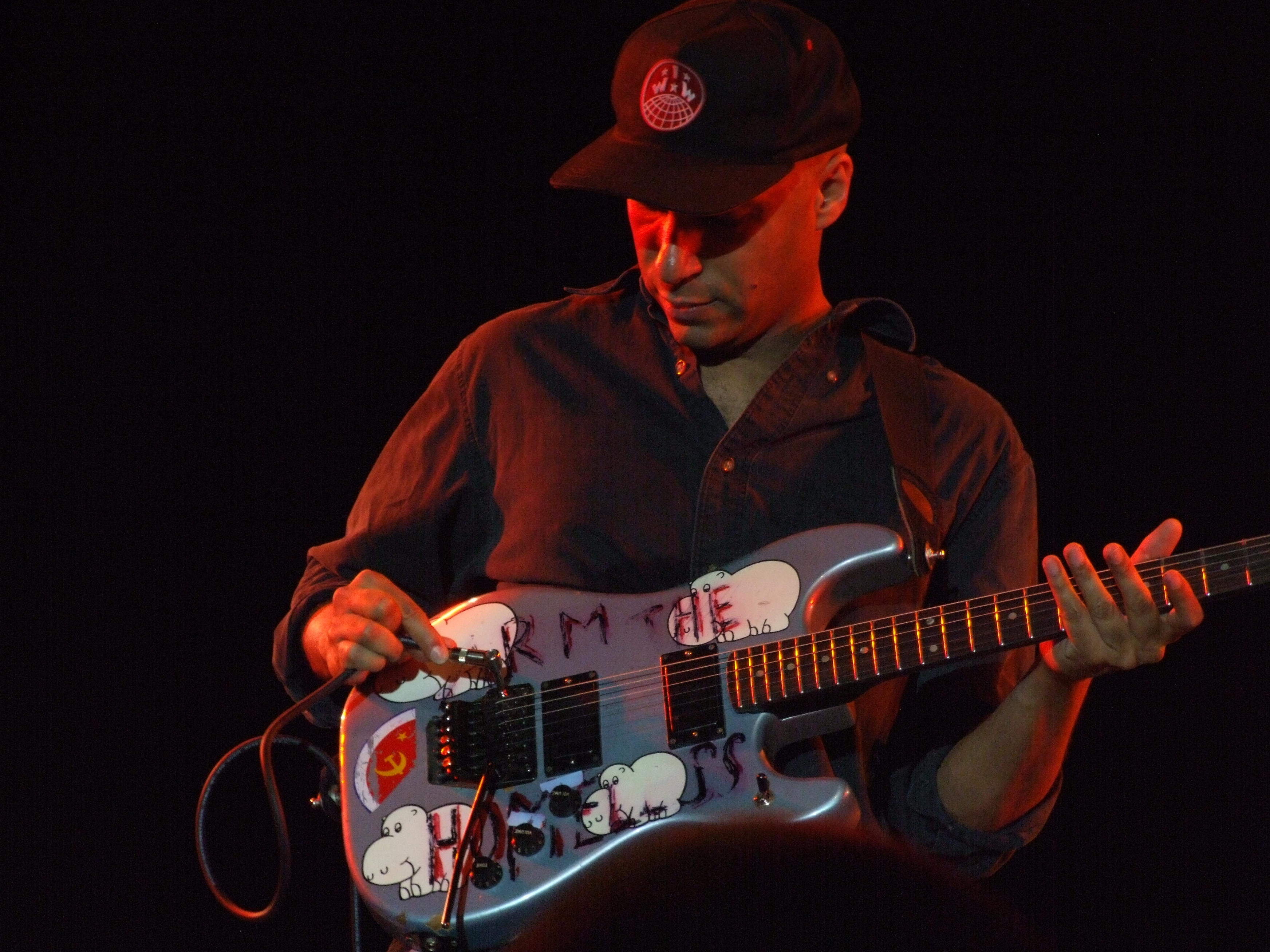 Tom Morello perfotming at Nokia Theater, New York.